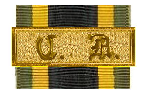 Dienstauszeichnung Decoration for Faithfull Service Sachse-Weimar 1872 - 1901